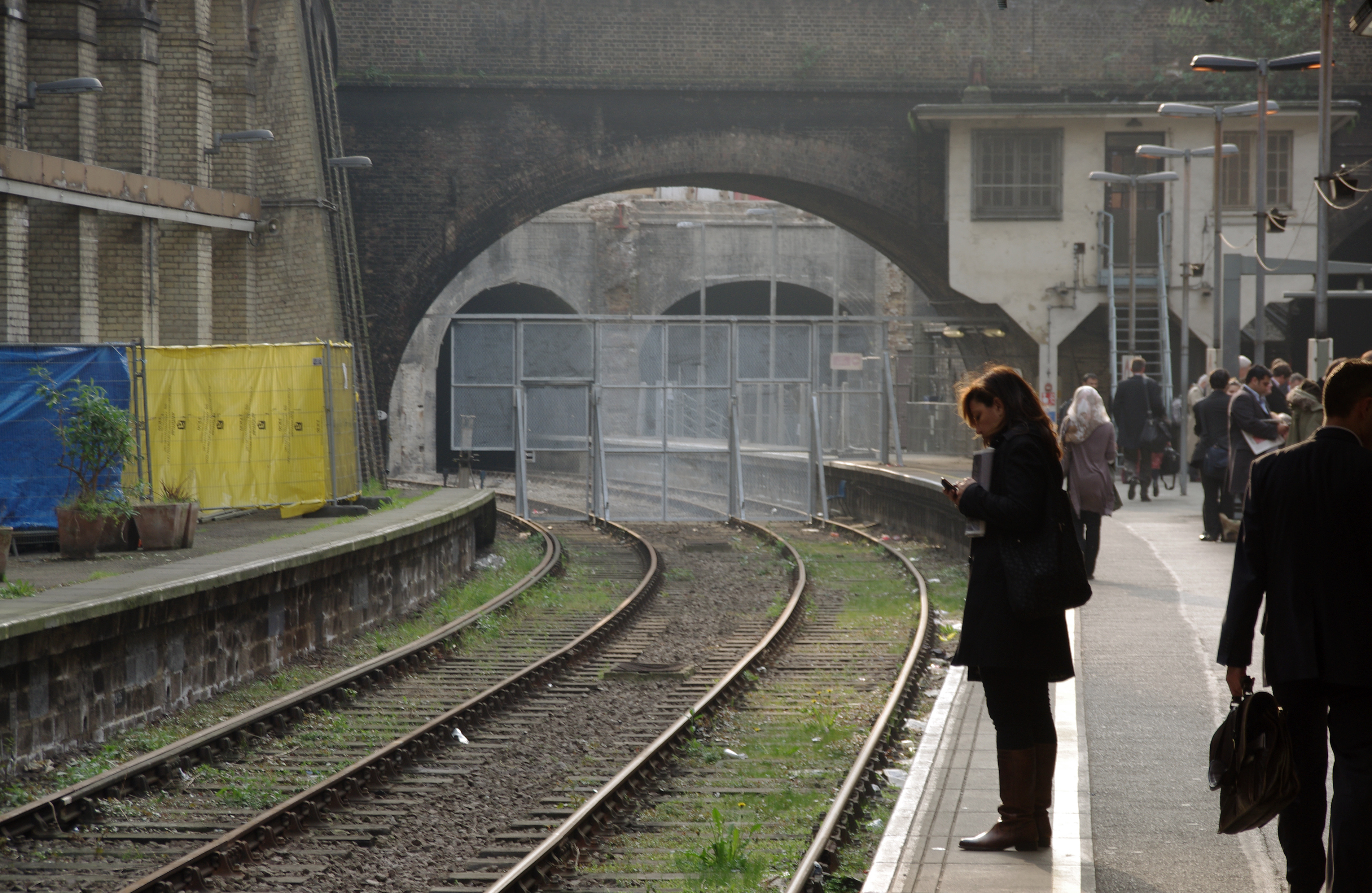 The old disused Thameslink platforms at Barbican station. The Moorgate branch was taken out of service in 2009 in order to lengthen platforms at Farringdon.